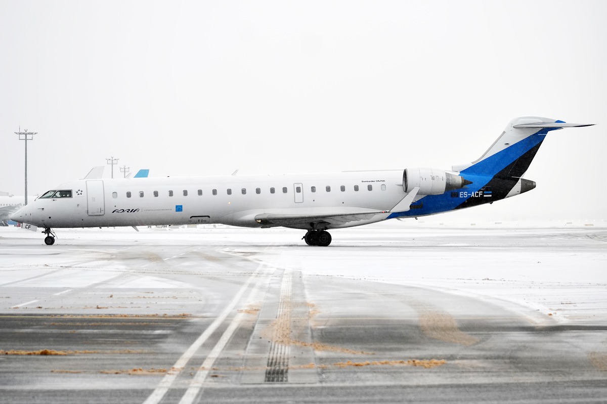 Nordic Aviation Group, ES-ACF, Canadair CRJ-701ER